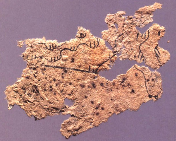 Fragment of a paper map showing topographic features drawn in black ink, found on the chest of the occupant of Tomb 5 of Fangmatan, Gansu in 1986. The tomb dates to the early Western Han (i.e. early 2nd century BC). Size: 5.6 × 2.6 cm.